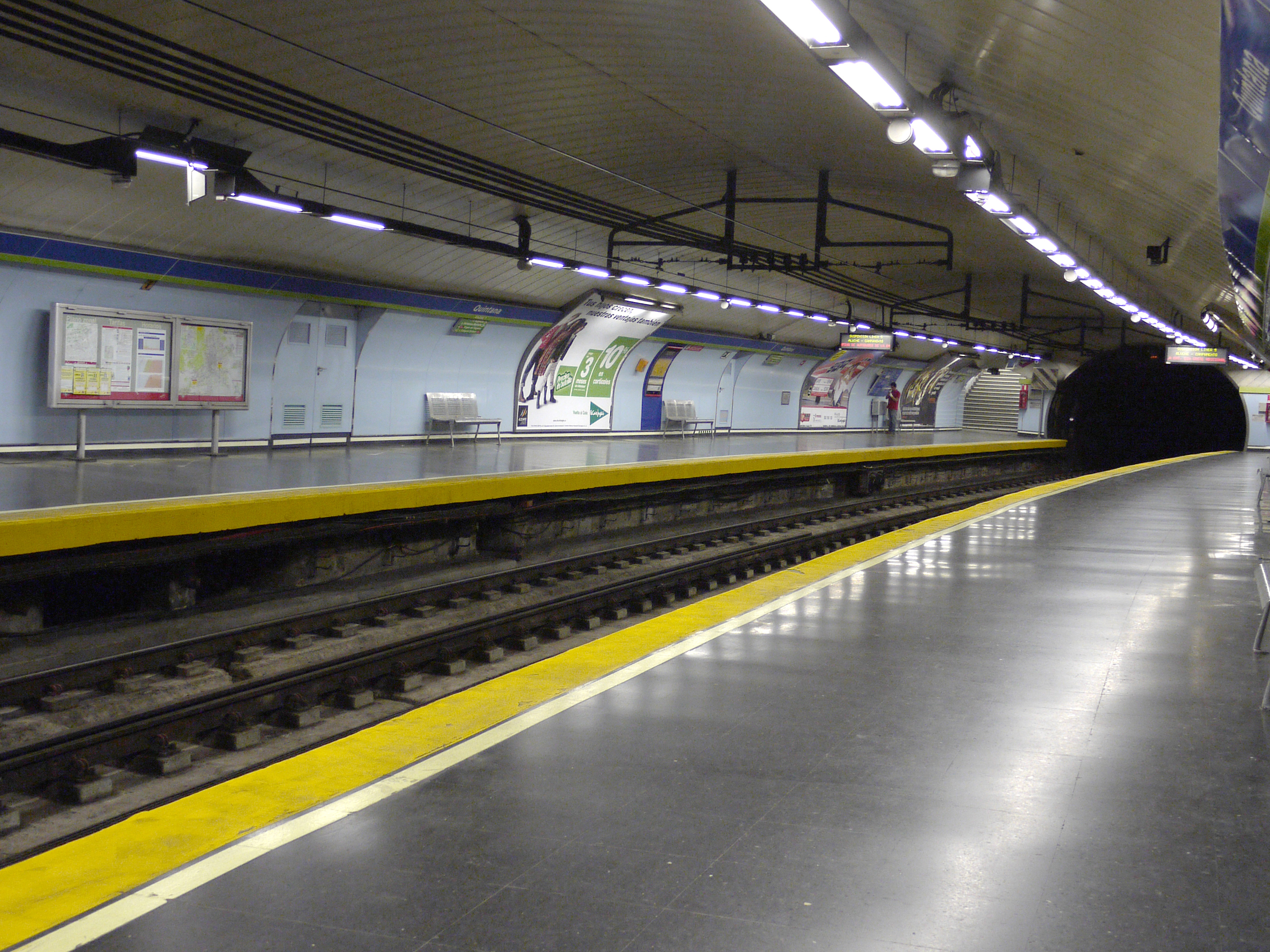 Metro Madrid station: Quintana (Linea 5), Spain